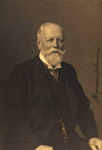 Johan Henrik Hegermann-Lindencrone (1838-1918), Danish diplomat